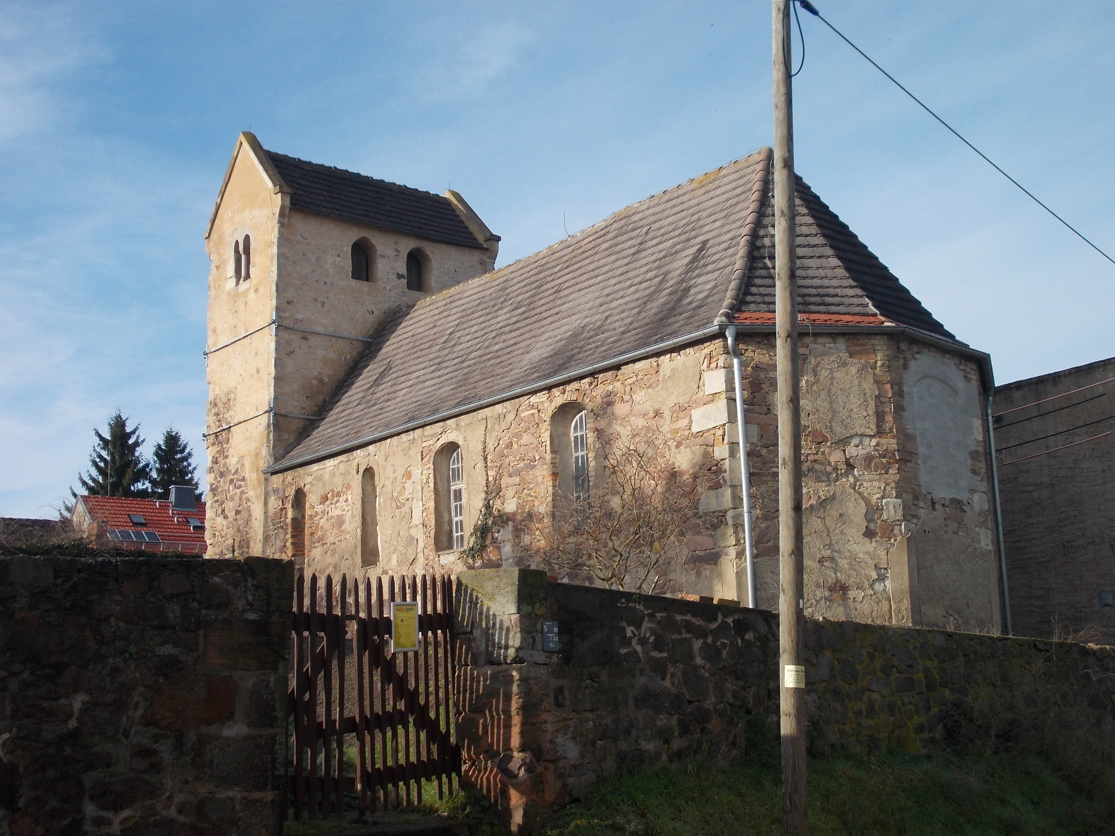 Merkewitz church (district: Saalekreis, Saxony-Anhalt)